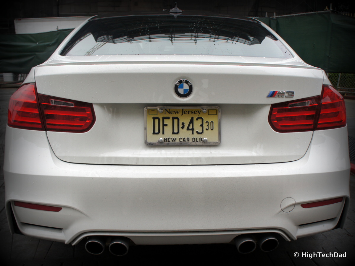 Photos of the 2015 BMW M3 Sedan. More reviews can be found at: or